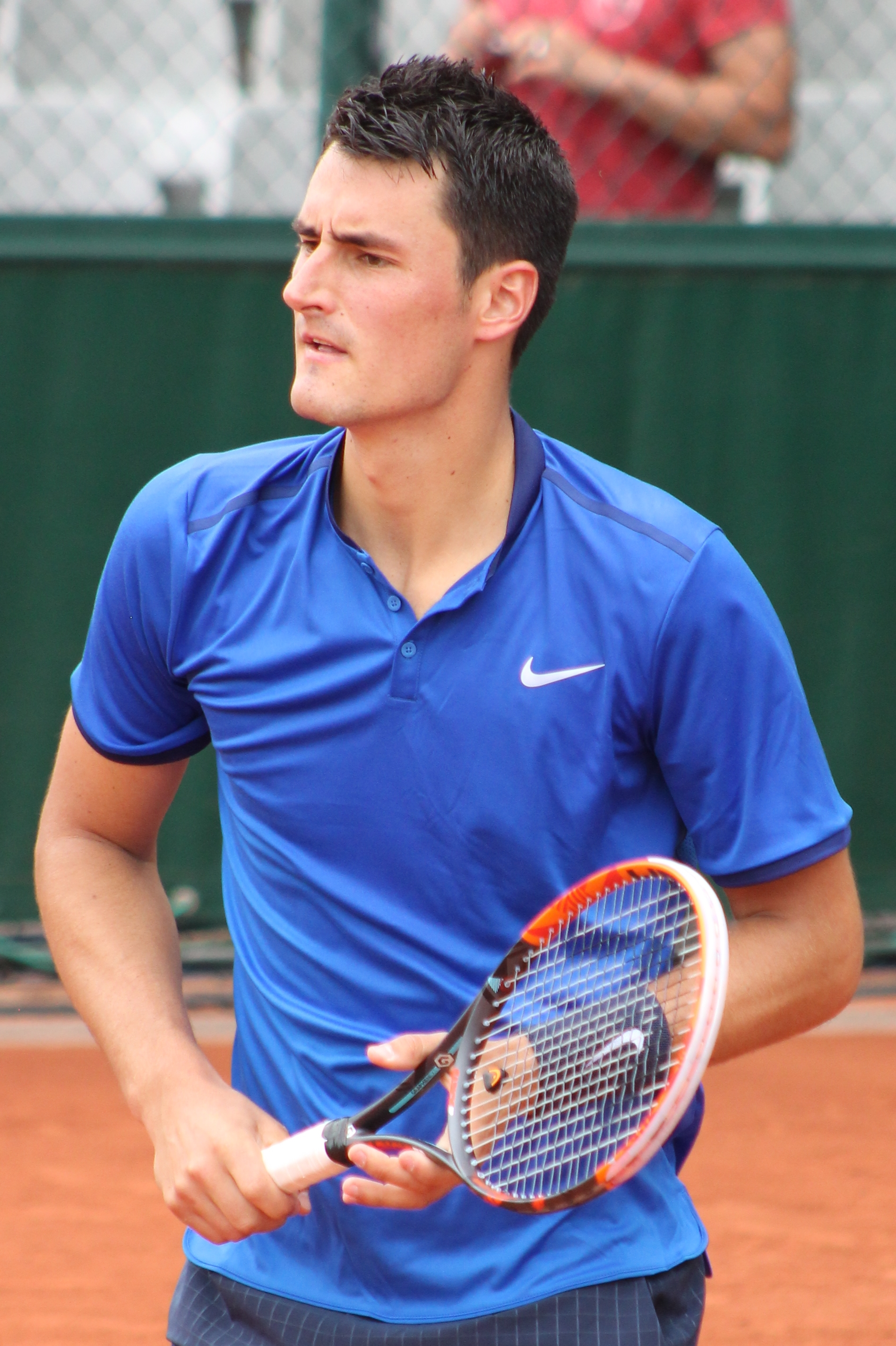 Tomic RG16 (8)